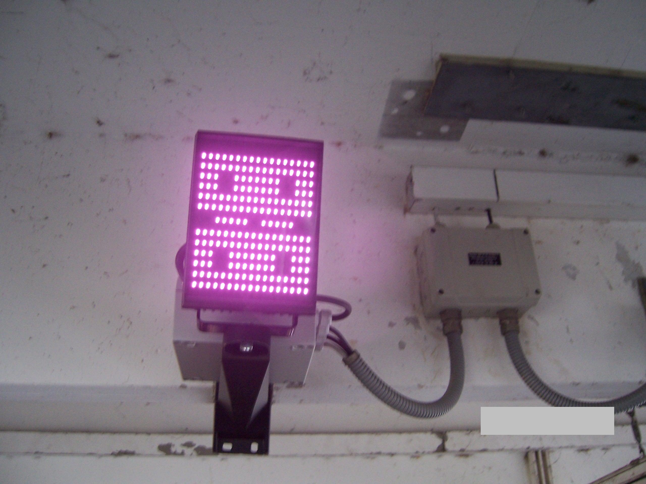 Swiss European surveillance: facial recognition and vehicle make, model, color and license plate reader. In Germany and Switzerland you cannot drive anywhere without the “authorities” tracking you and logging your movement for future reference.